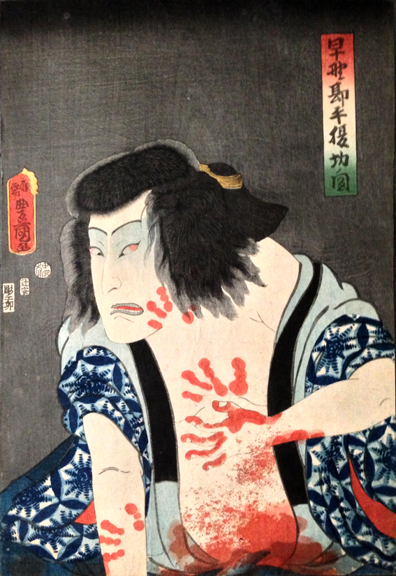 A 1860 Ukiyo-E print by Kunisada of a rather gory depiction of Nakamura Fukusuke as Hayano Kampei committing seppuku in a scene from Act 6 of the classic kabuki play "Kanadehon Chushingura."